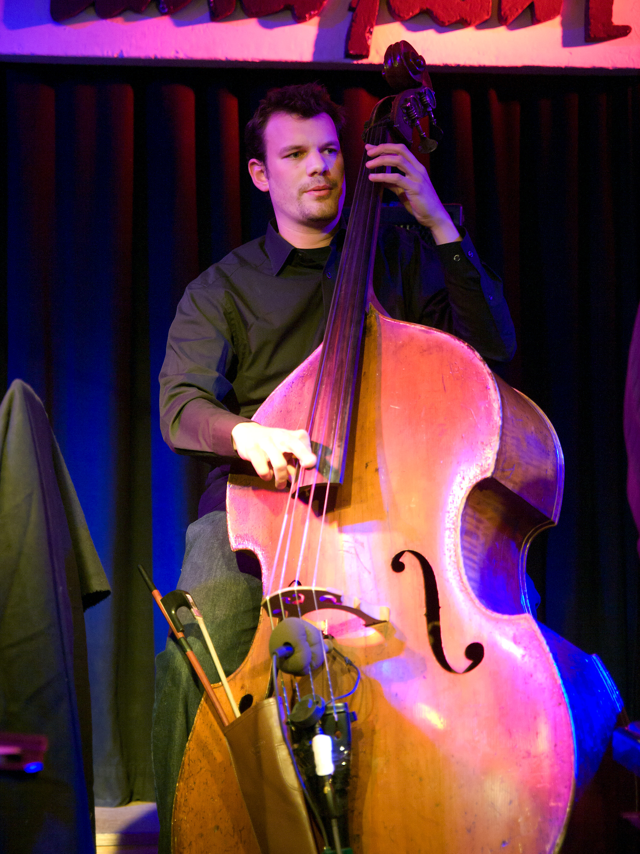 Thomas Lähns, Jazz bassist; Picture taken in Jazz Club Unterfahrt, Munich/Bavaria